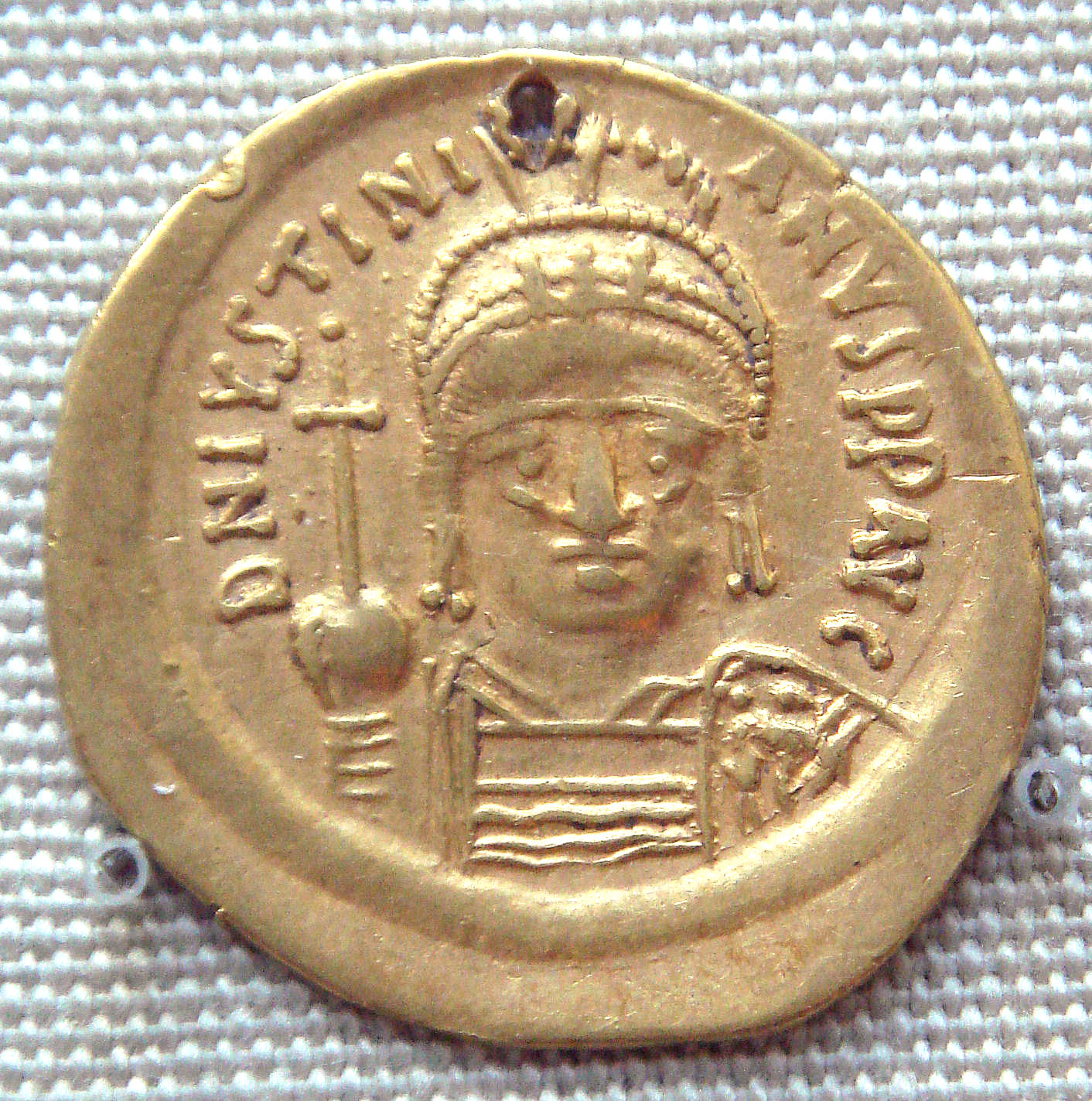 Gold_coin_of_Justinian_I_527CE_565CE_excavated_in_India_probably_in_the_south.